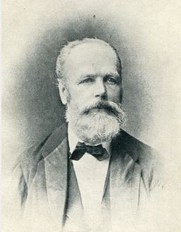 Czech painter, František Cermak (1822-1884)